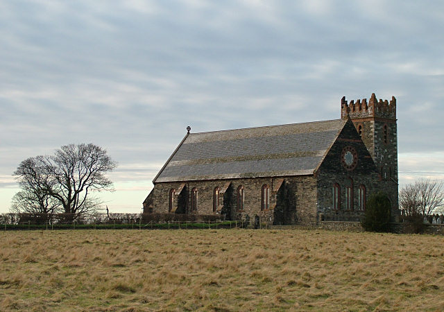 Andreas Church - Isle of Man. This church used to have a much taller tower, but it was shortened during WW2 as it presented a hazard to aircraft flying from the nearby RAF Airfield.